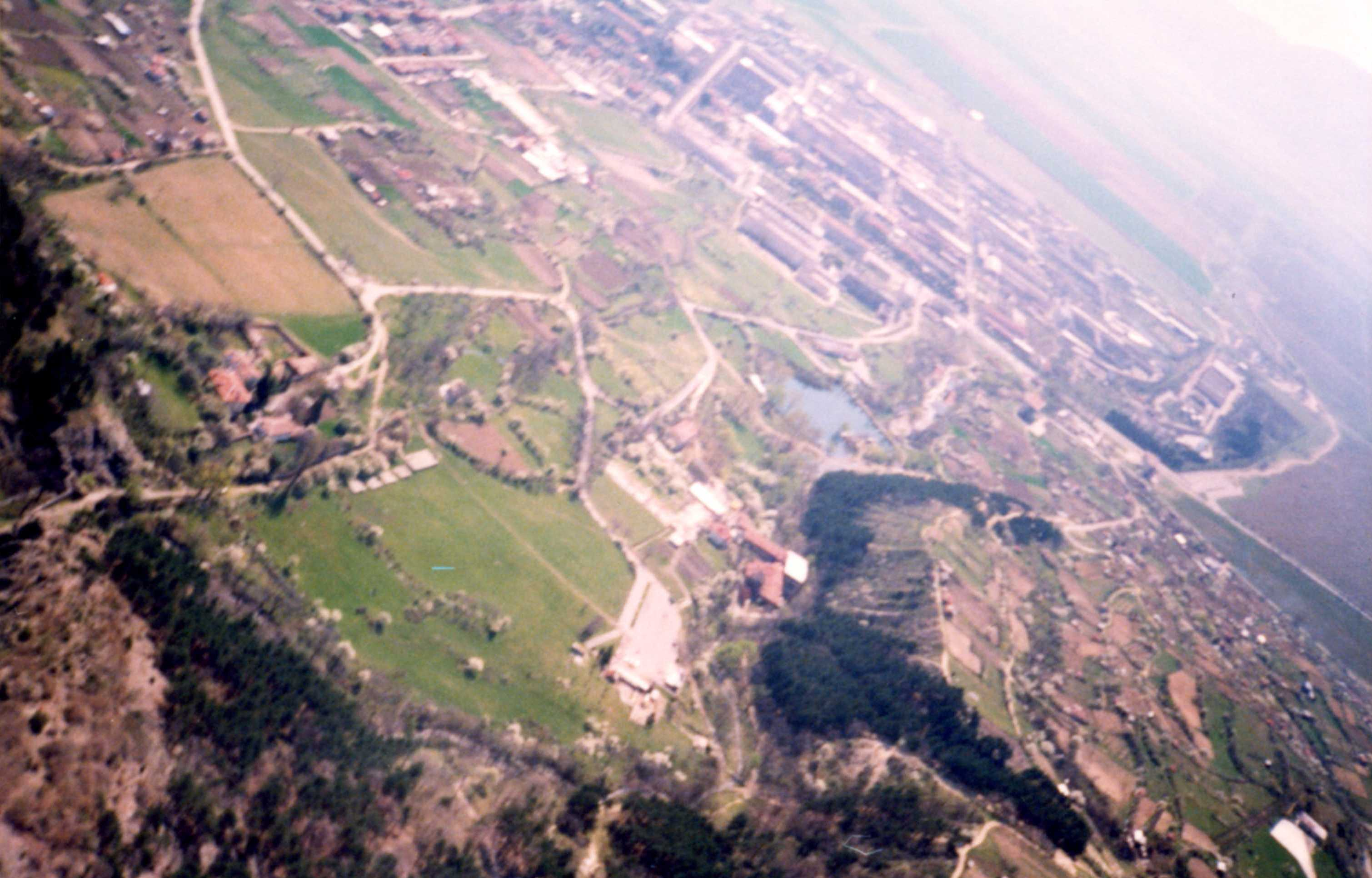 Sopot, Bulgaria